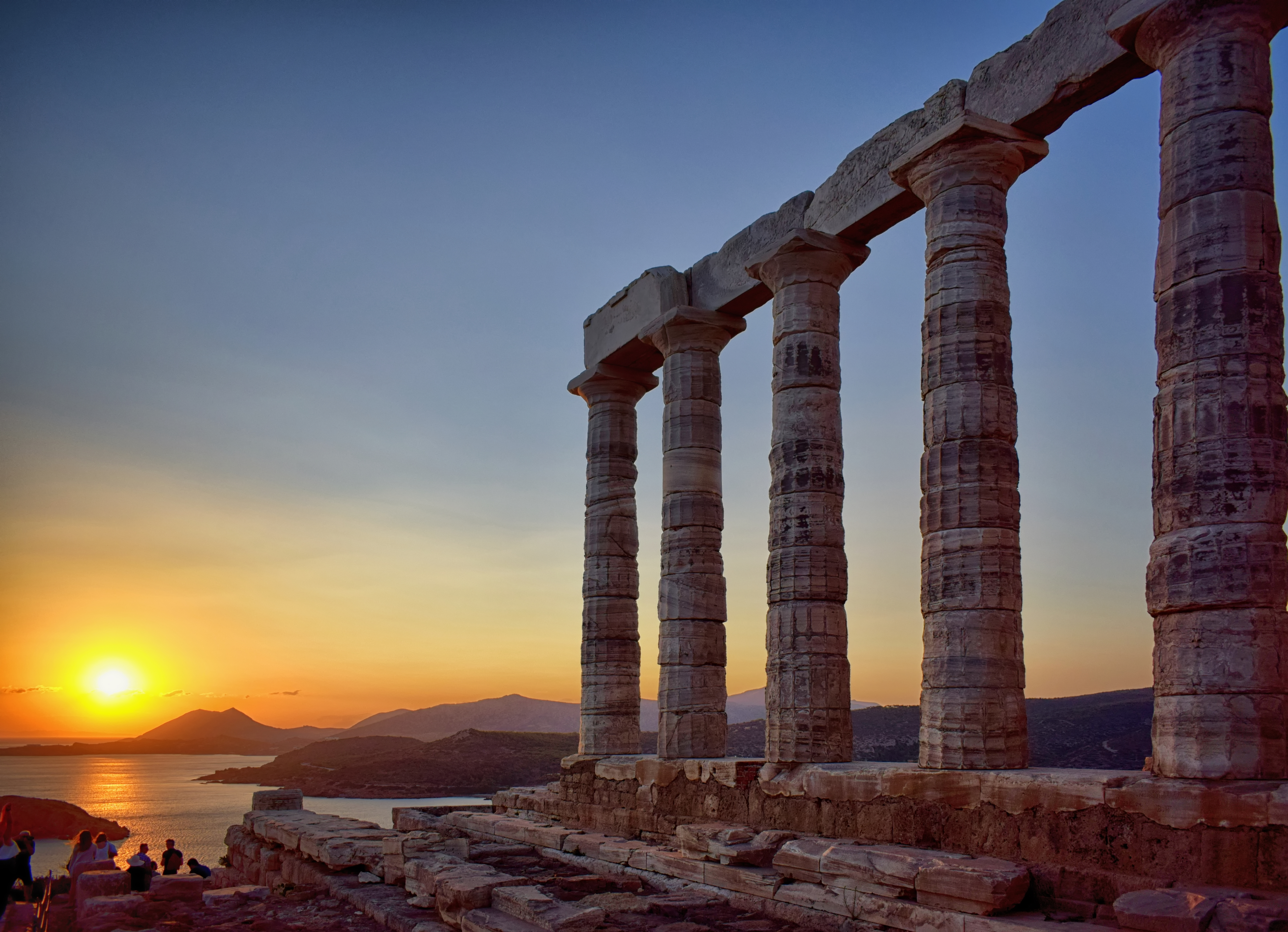 This is a photography of Natura 2000 protected area with ID GR3000005